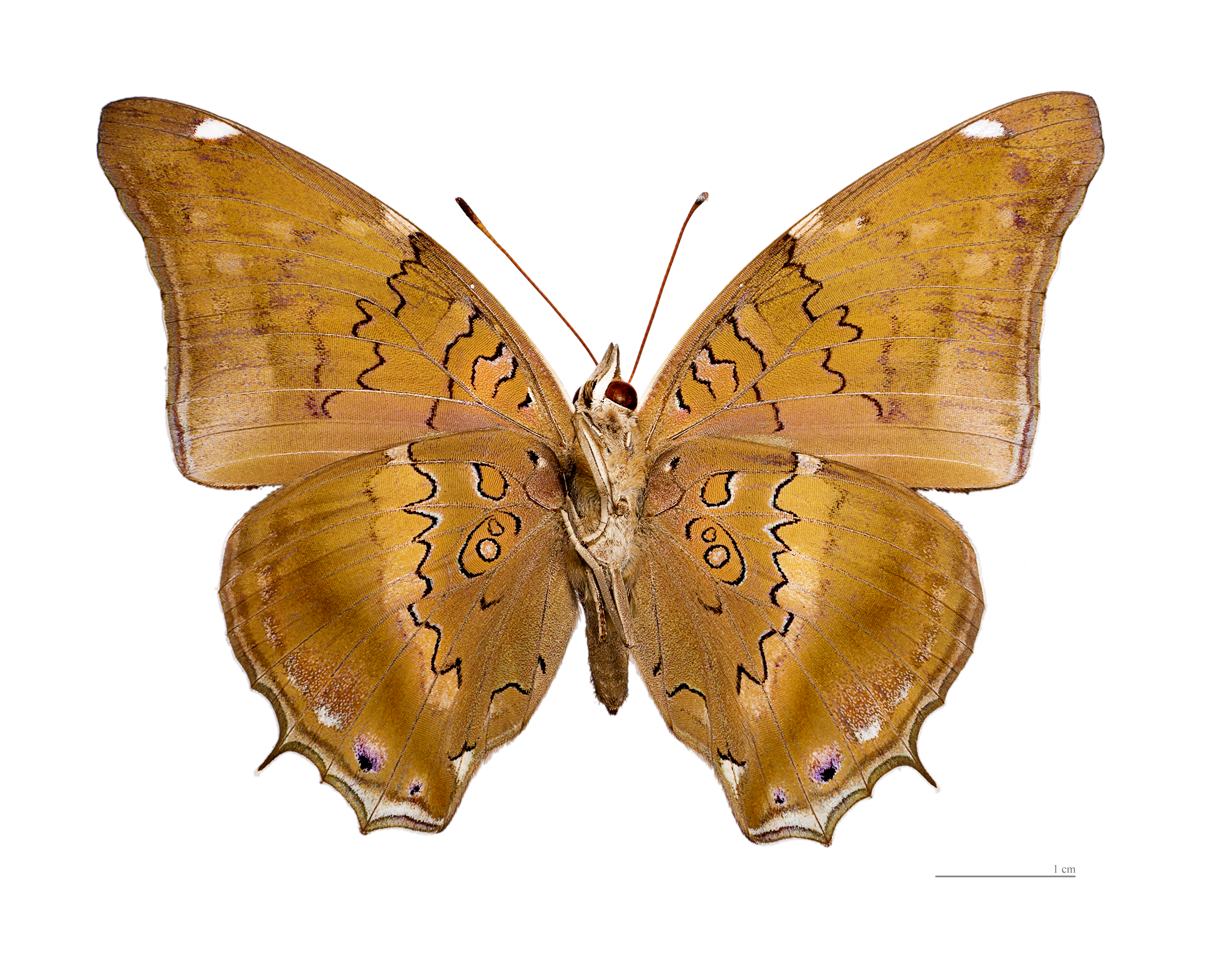 ♂ - △ Ventral side Locality : Cacao, Crique Baguot, French Guiana.